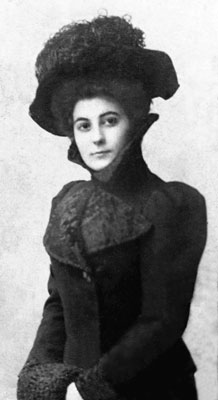 Helena Roerich, russian writer and philosopher